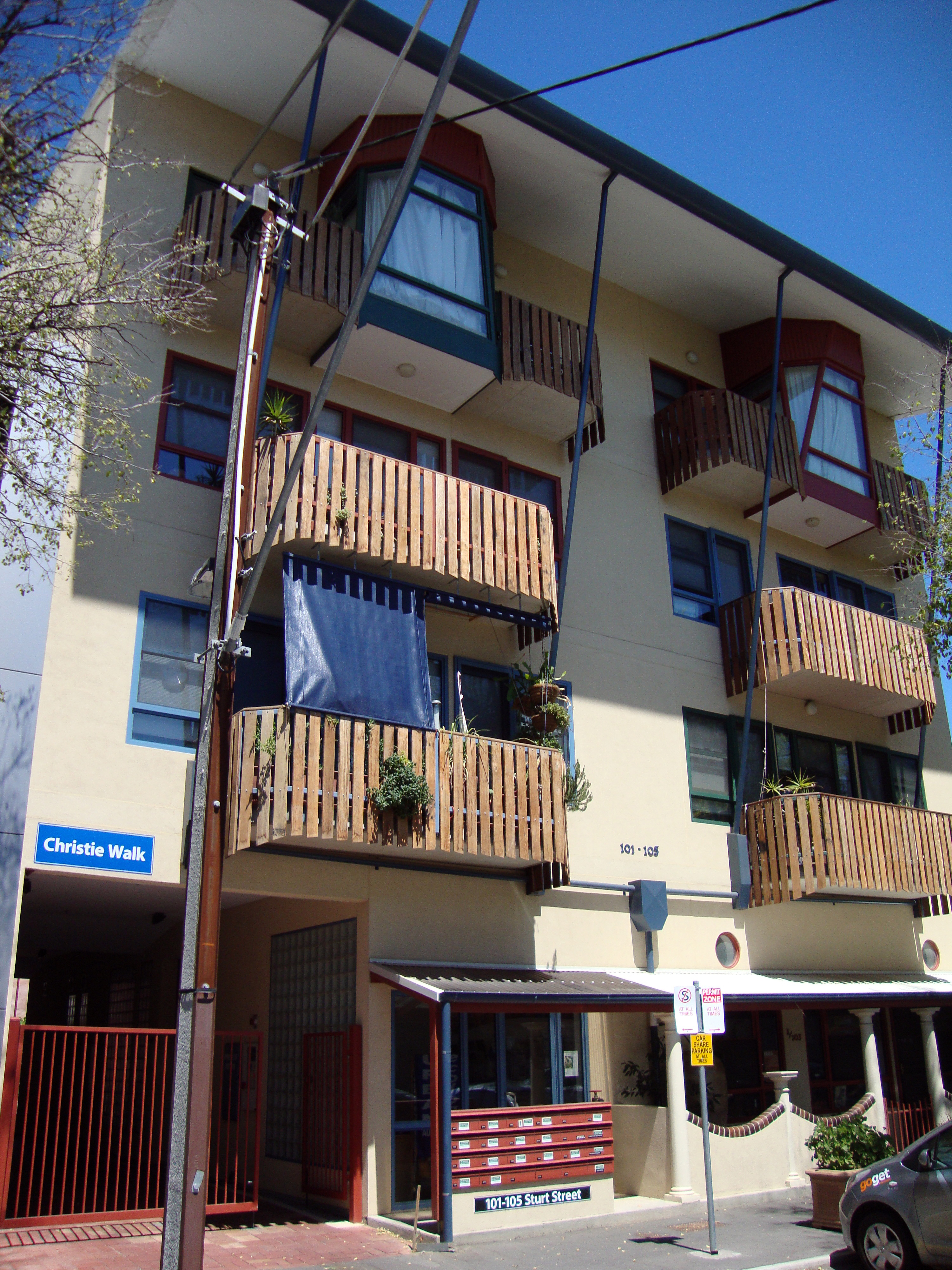 Christie Walk co-housing, Adelaide, Australia